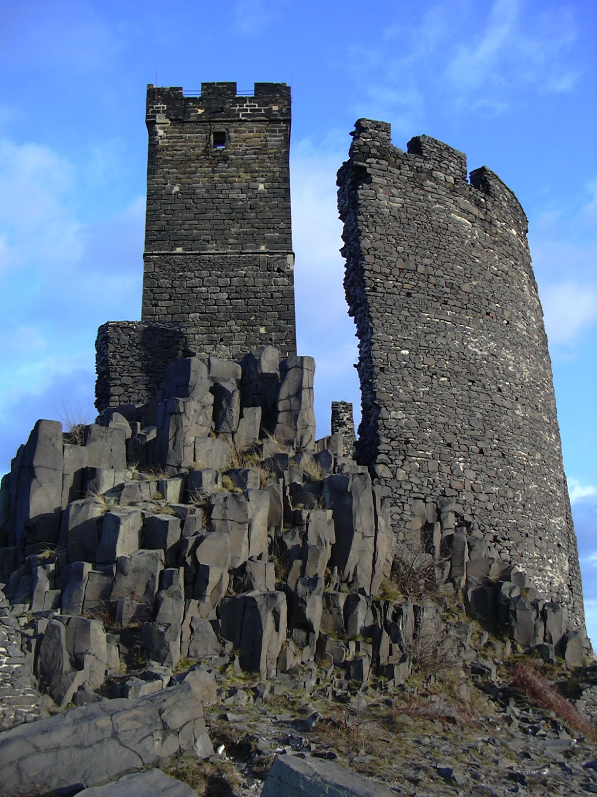 White Tower (left) and remains of walls (right) of the Hazmburk Castle. 31. prosince 2006 vyfotografoval Miraceti